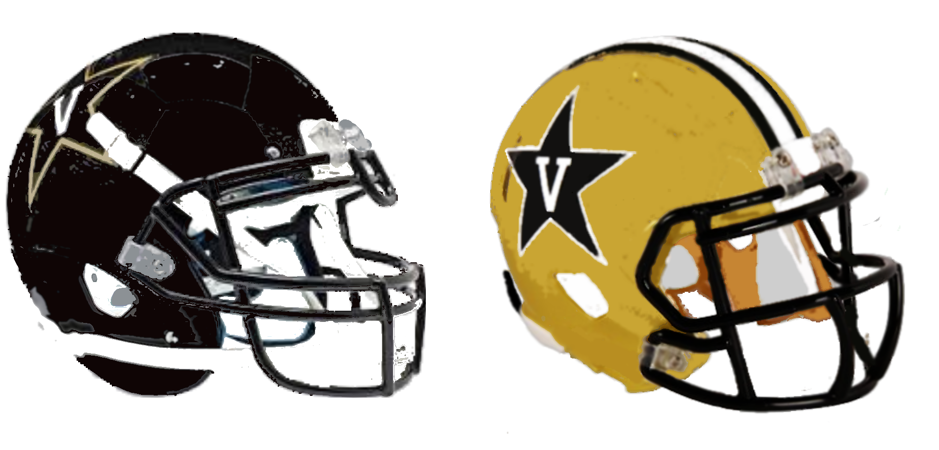 My Own Art Work useing PaintShop Pro X3